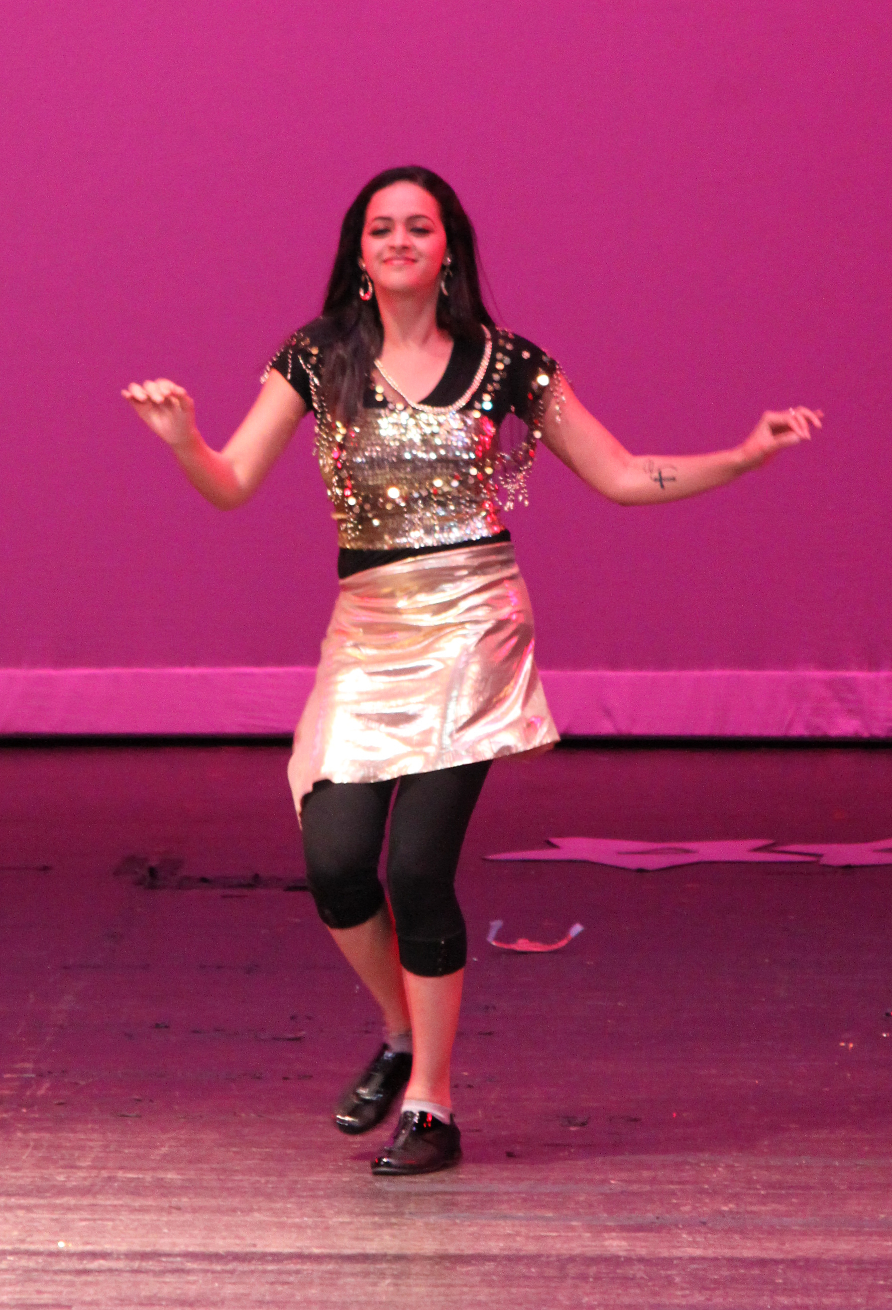 Bhavana Menon, Popular South Indian Actress